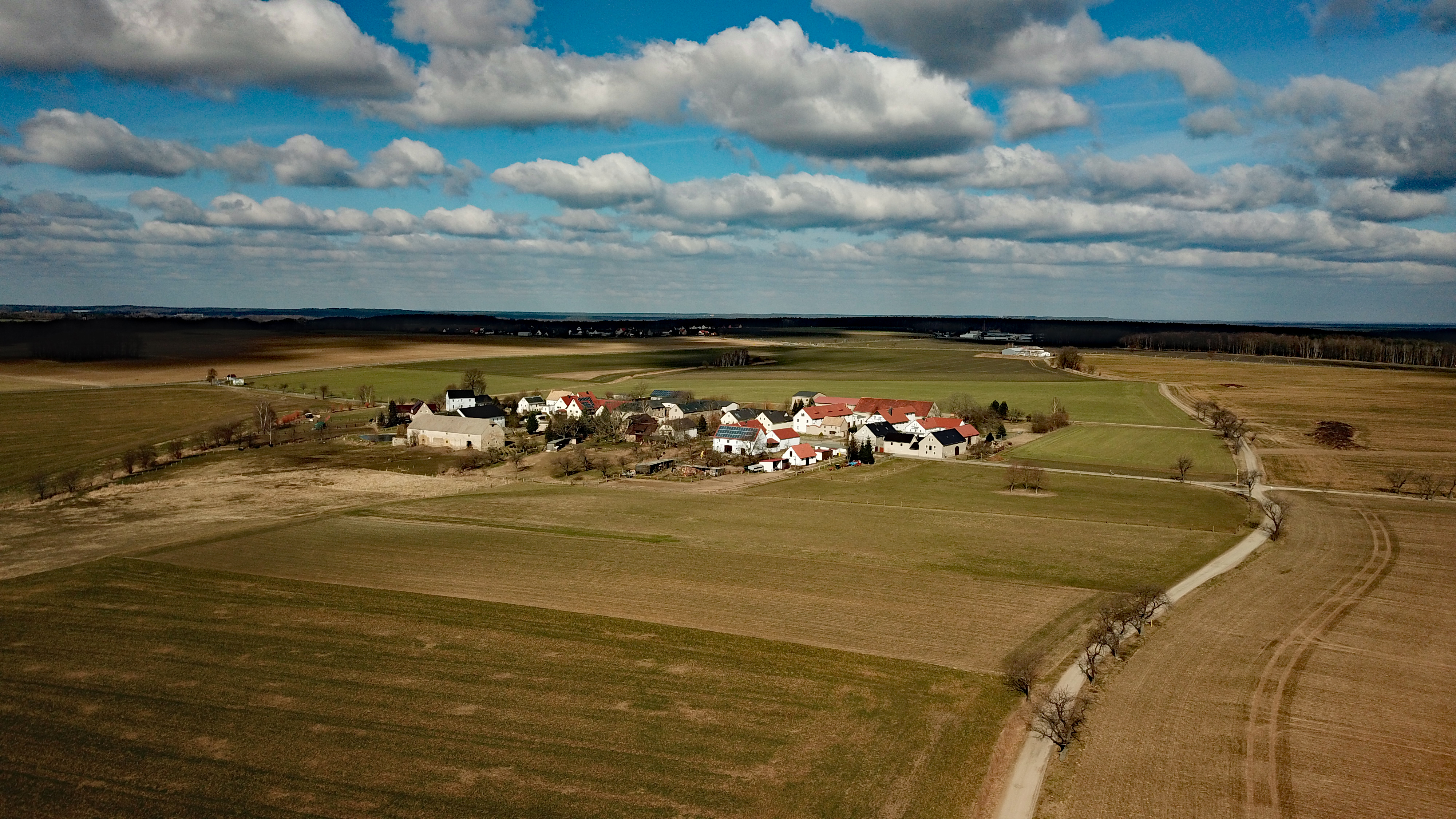 Dürrwicknitz (Nebelschütz, Saxony, Germany) Hornjoserbsce: Powětrowy wobraz Wěteńcy.